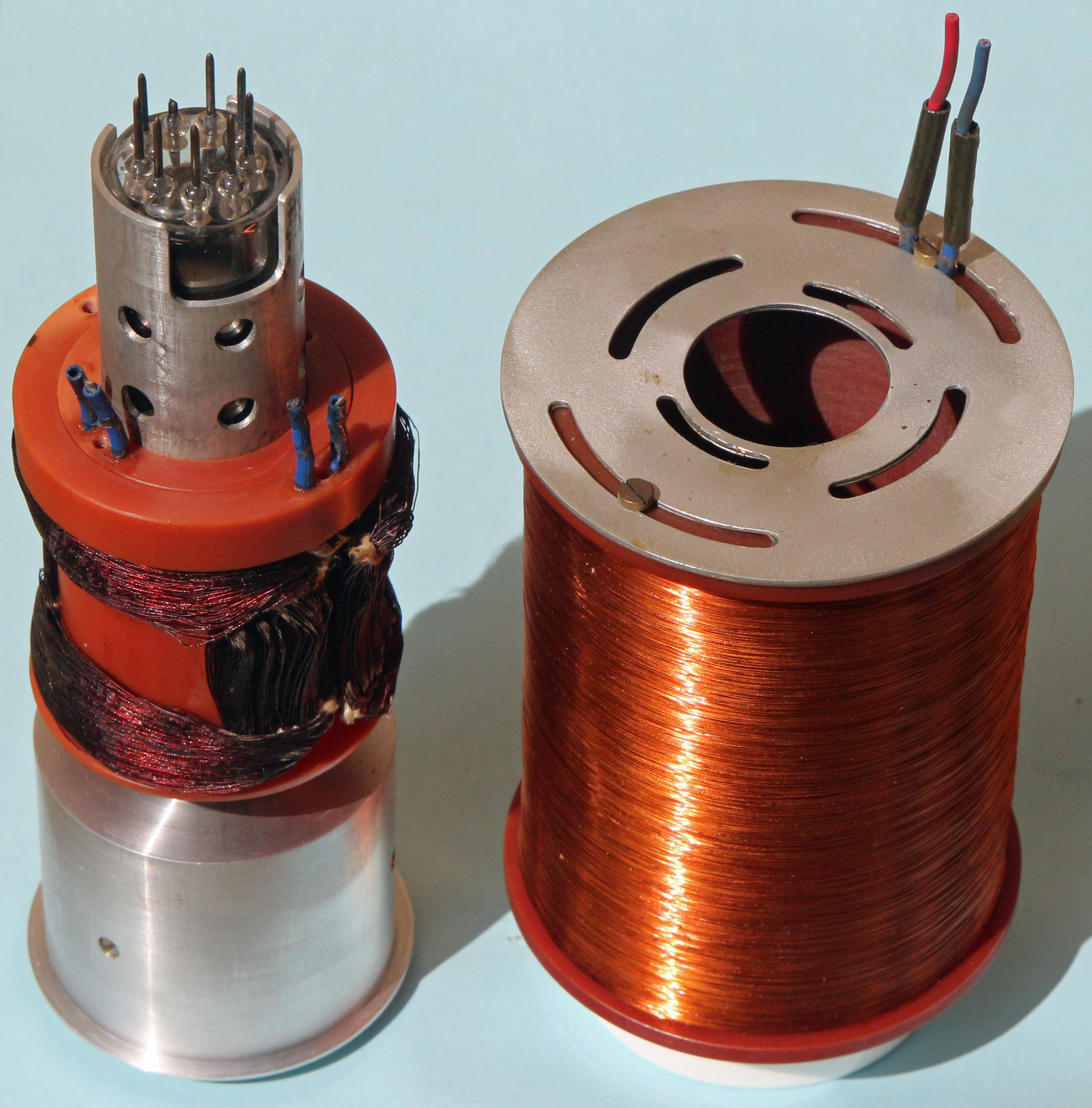 Resistron (video camera tube of vidicon type) No 4149 from Physikalisch-Technische Werkstätten Wiesbaden-Dotzheim (later Heimann) with coils (right: focus coil removed, left deflection coils and tube)